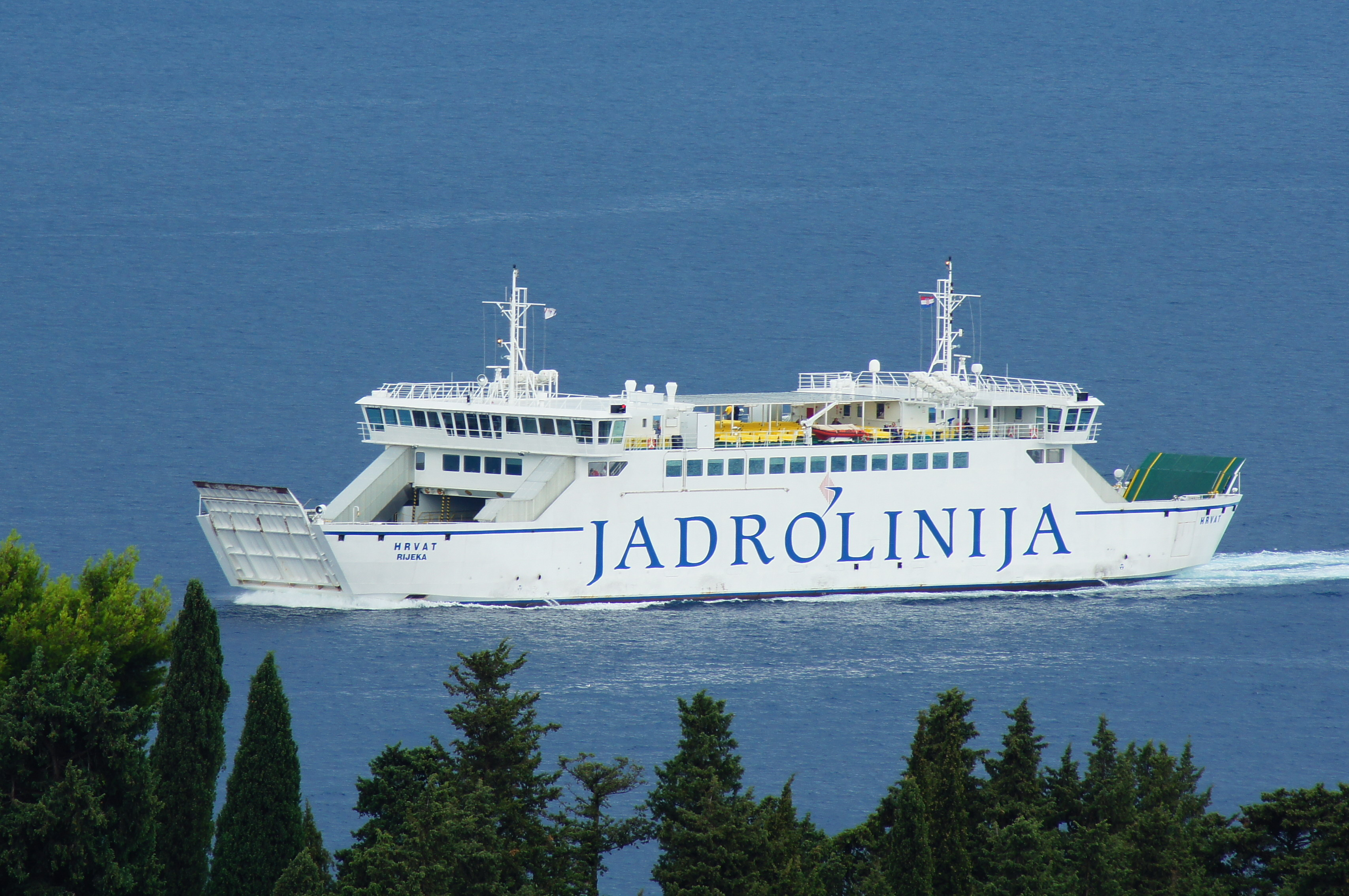 Hrvat (ship, 2007) IMO 9415181, Arriving in Split, 2011-09-20